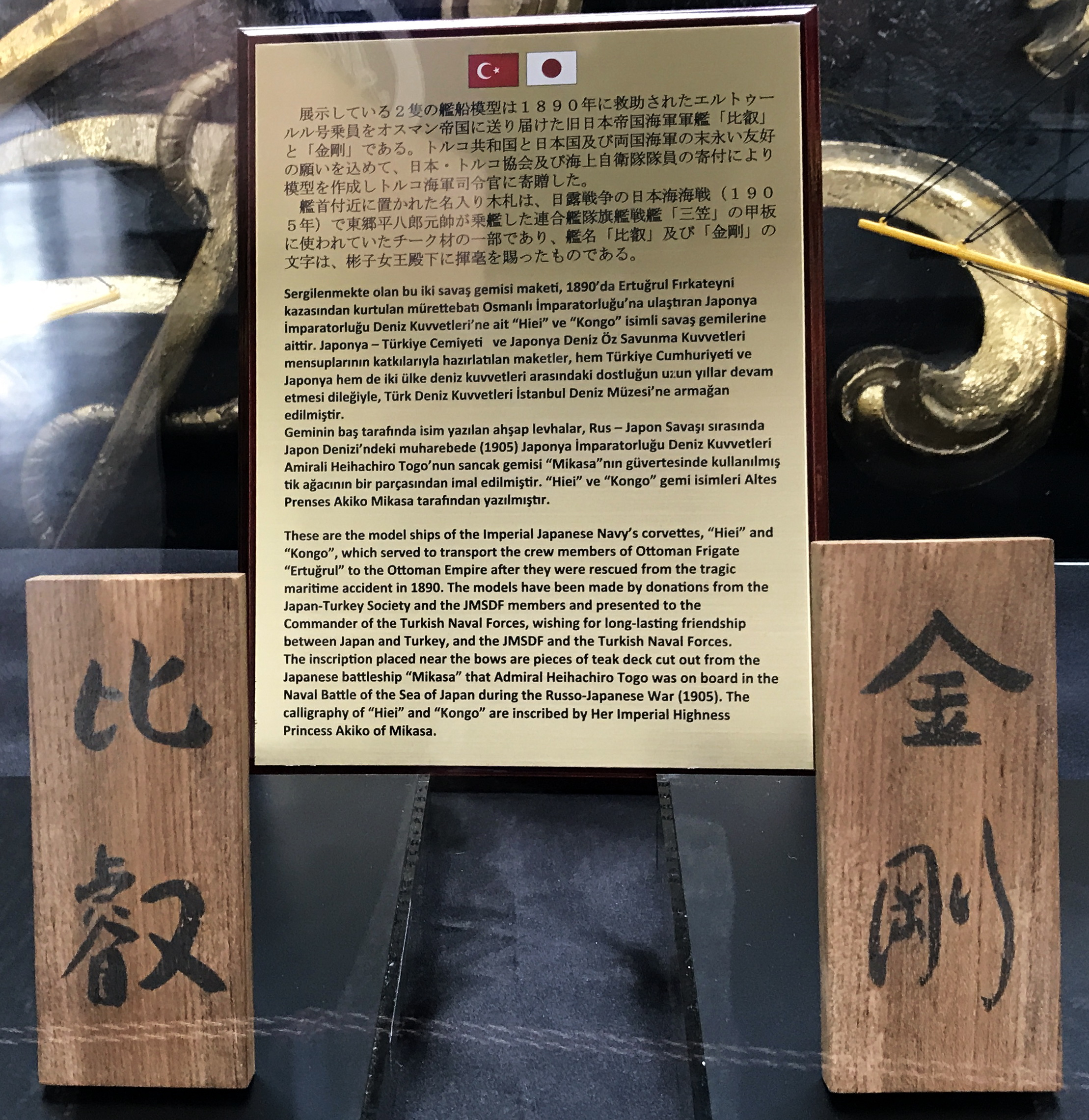 Description of Japanese Kongō-class ironclad corvettes: Kongō and Hiei in "İstanbul Deniz Müzesi" (Istanbul Naval Museum).